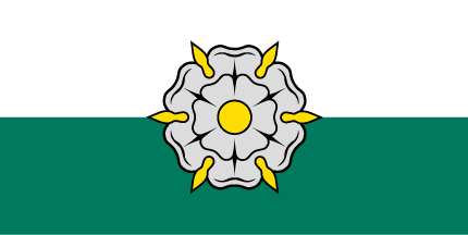 Flag of Tukums Municipality, Latvia